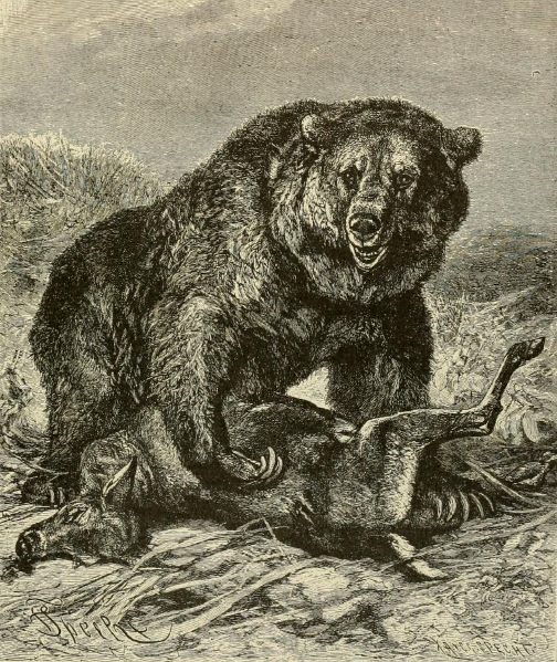 Grizzly bear with deer